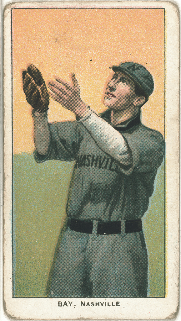 Title: Harry Bay, Nashville Team, baseball card portrait Abstract/medium: 1 print : relief with halftone, color.